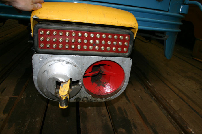 Scharfenberg coupling on tram (2)